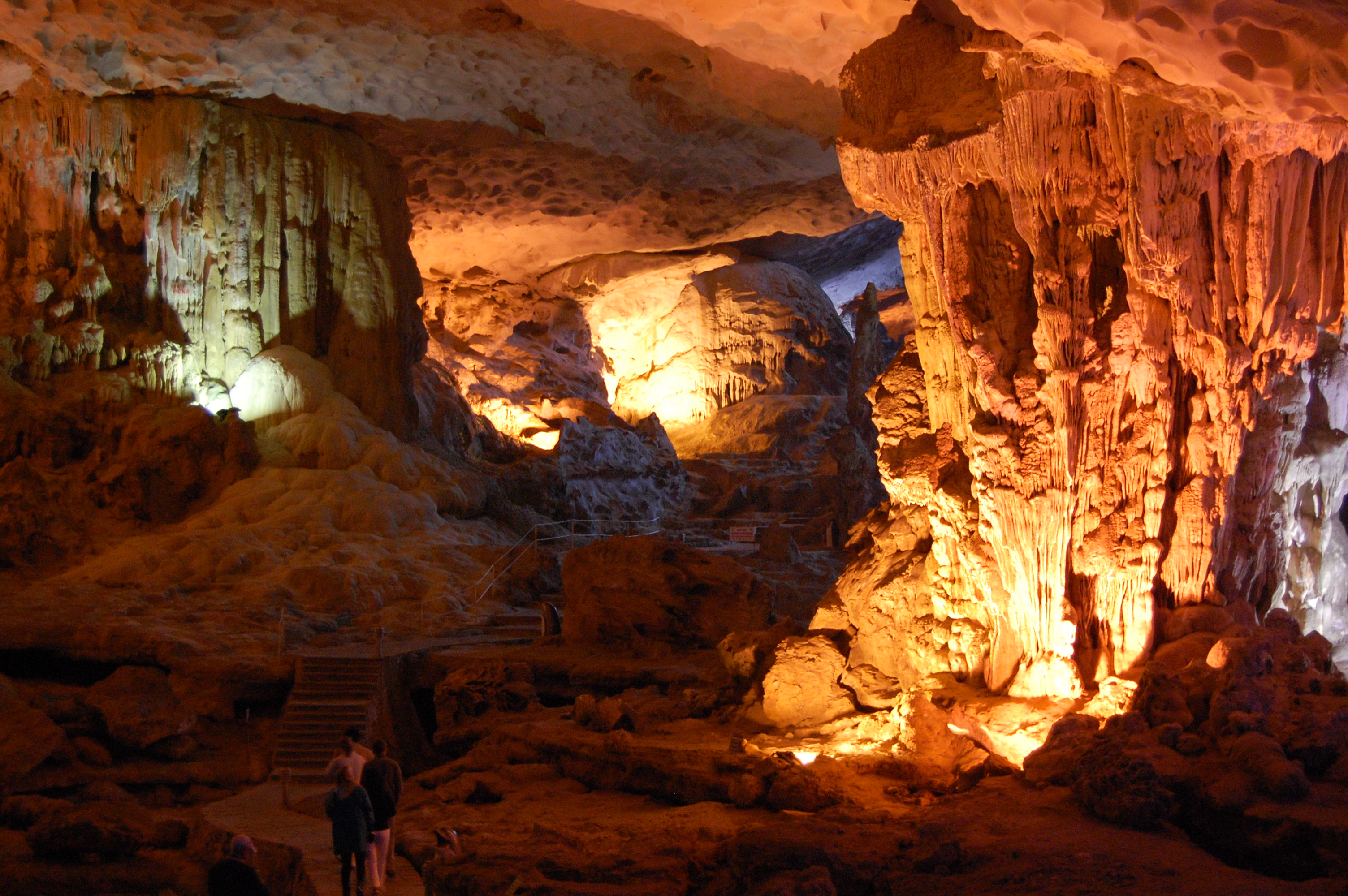 Today we began a two-day boat tour of Ha Long Bay. The bay is full of tiny limestone islands (almost 2,000) rising from the sea. On the first day we visited this cave on one of the islands. It is the largest cave in Ha Long Bay. When the French discovered it in the late 19th Century they named it the "amazing cave".